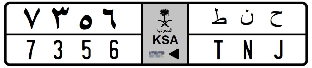 KSA - License Plate - Temporary - 550x110mm